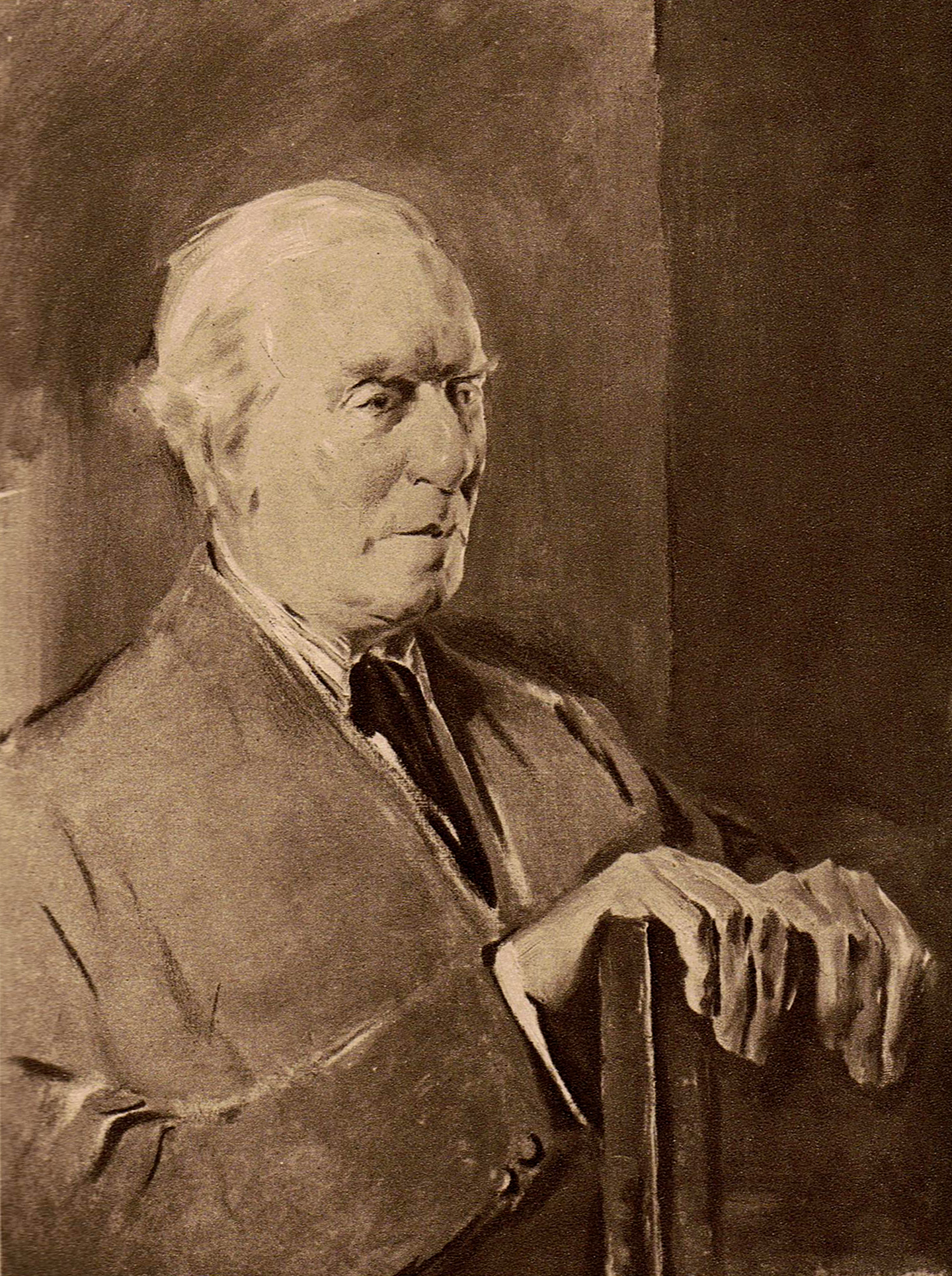 Scan of plate (cropped version) facing p. 72 from Men I Have Painted by John McLure Hamilton. A portrait of Herbert Asquith painted by Mr. Hamilton.